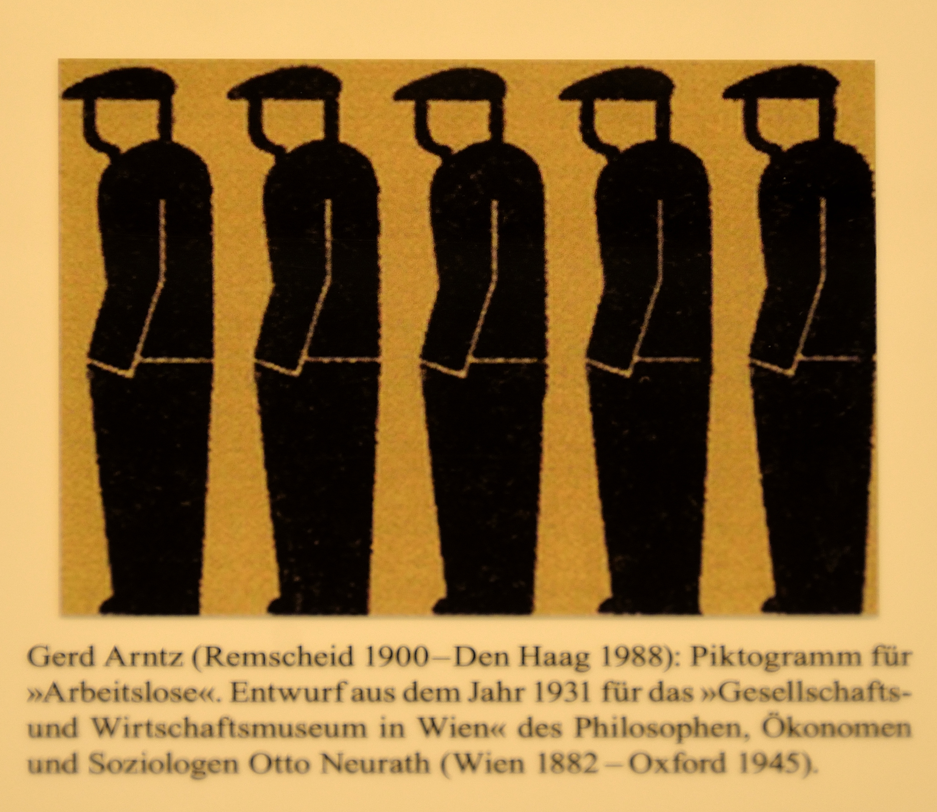 Museum Marienthal is located in the former Consum shop.